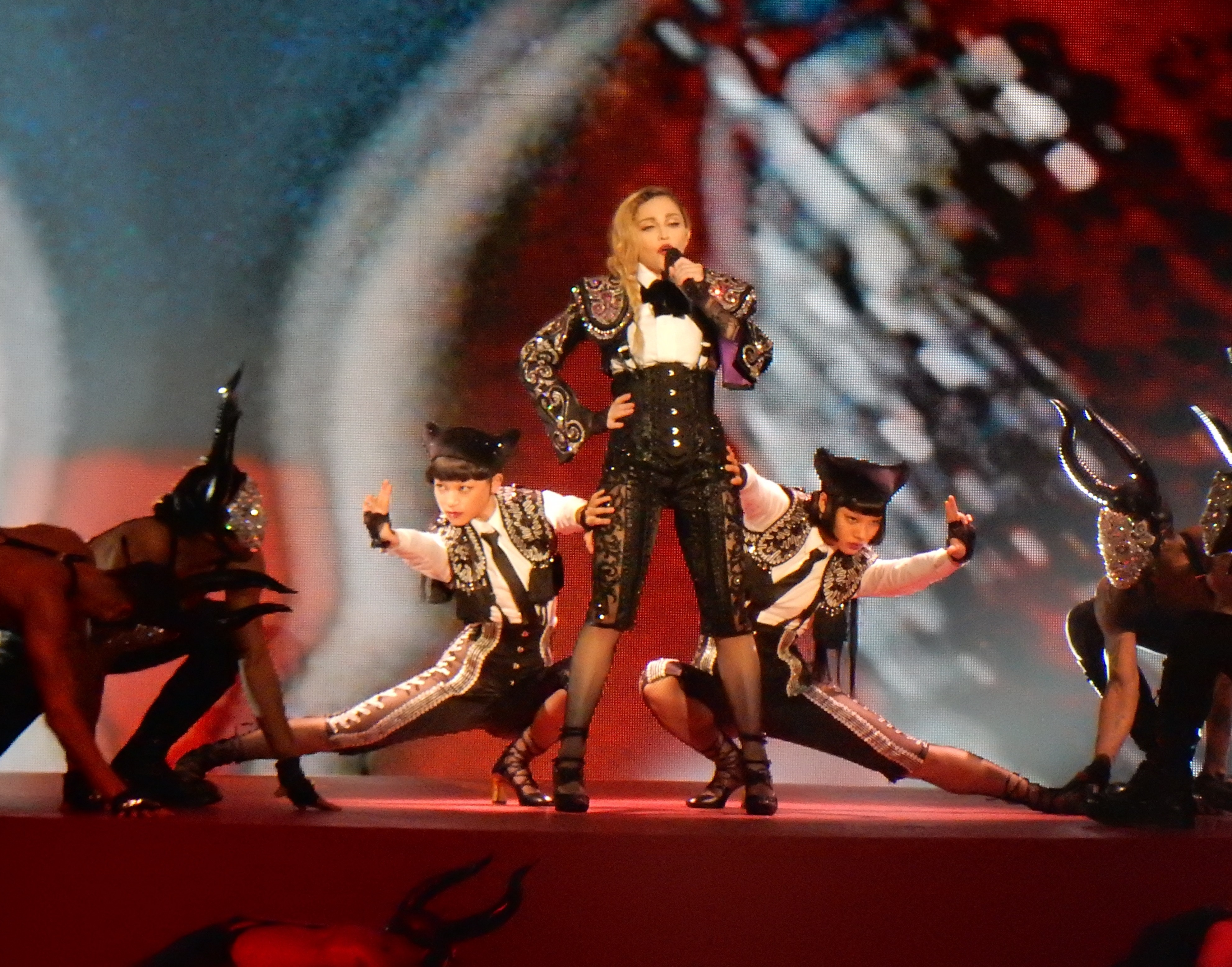 Madonna - Rebel Heart Tour 2015 - Washington DC